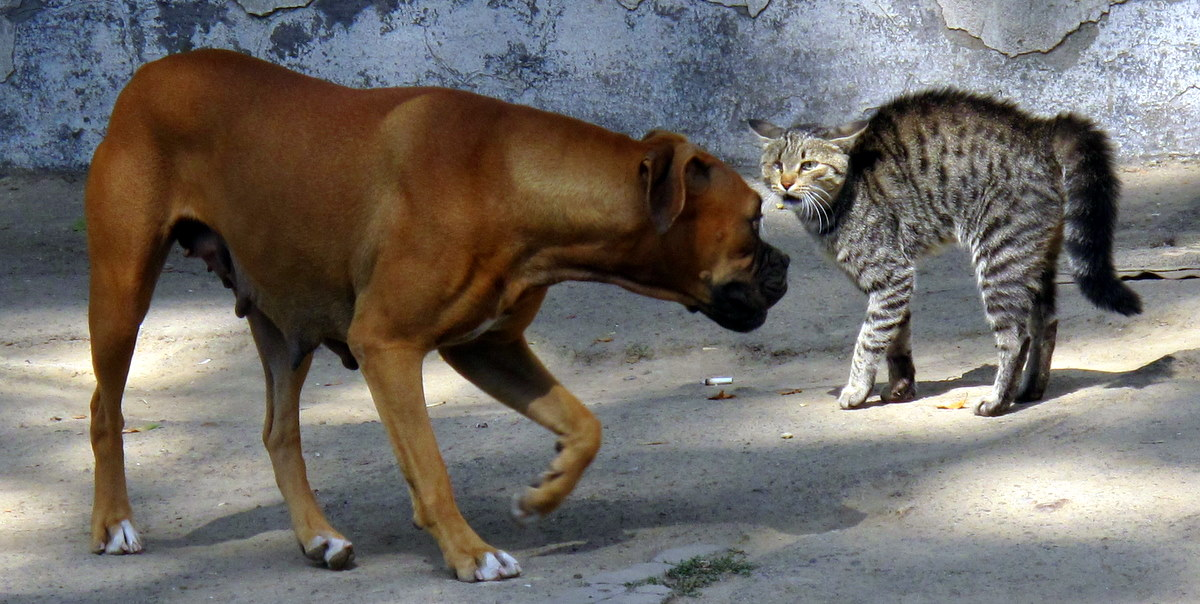 btw, if you zoom you'll see cat only has one eye